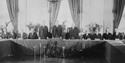 Calvin Coolidge, Herbert Hoover, and Frank B. Kellogg, standing, with representatives of the governments who have ratified the Treaty for Renunciation of War (Kellogg-Briand Pact), in the East Room of the White House.